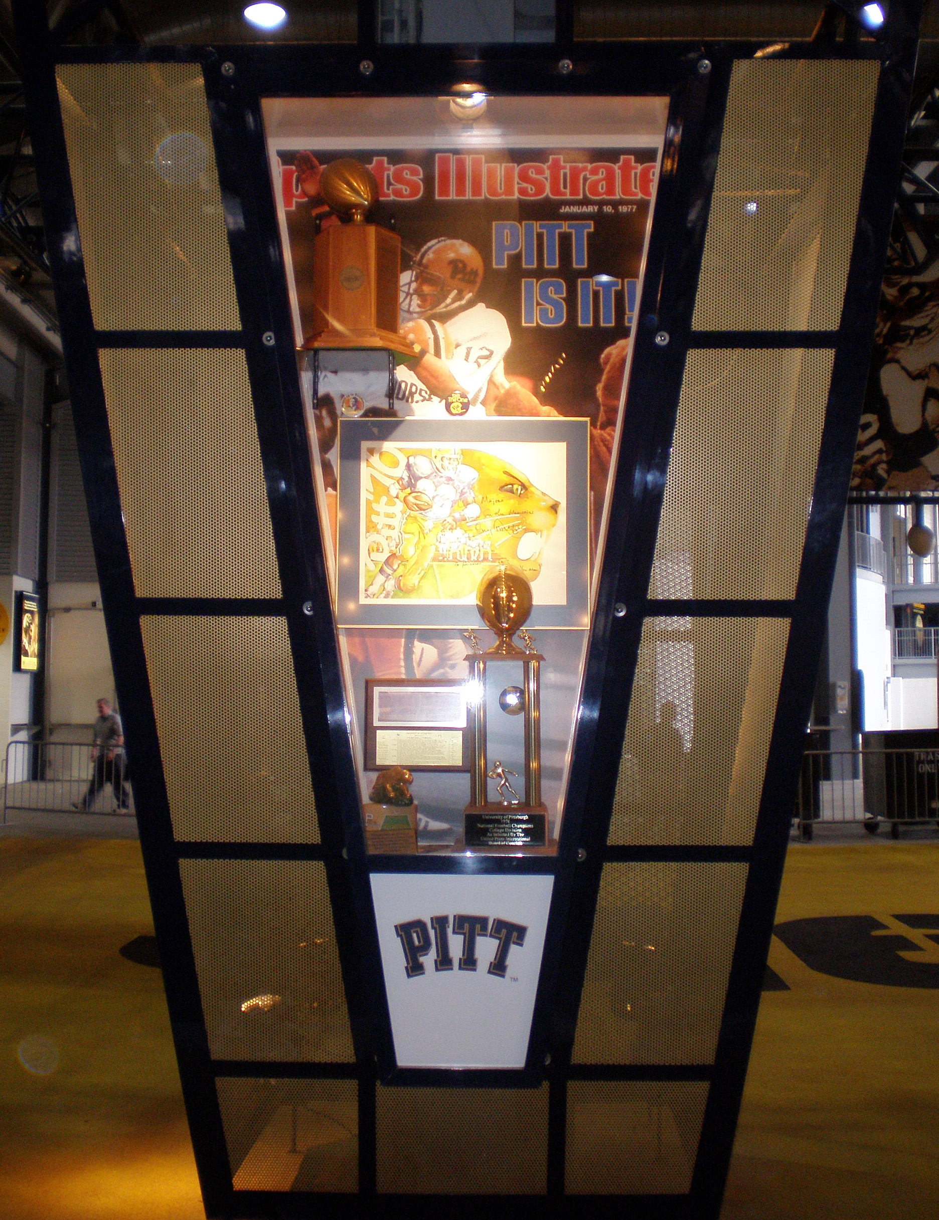 A kiosk located in the Great Hall of Heinz Field celebrating accomplishments of the Pitt Panthers.